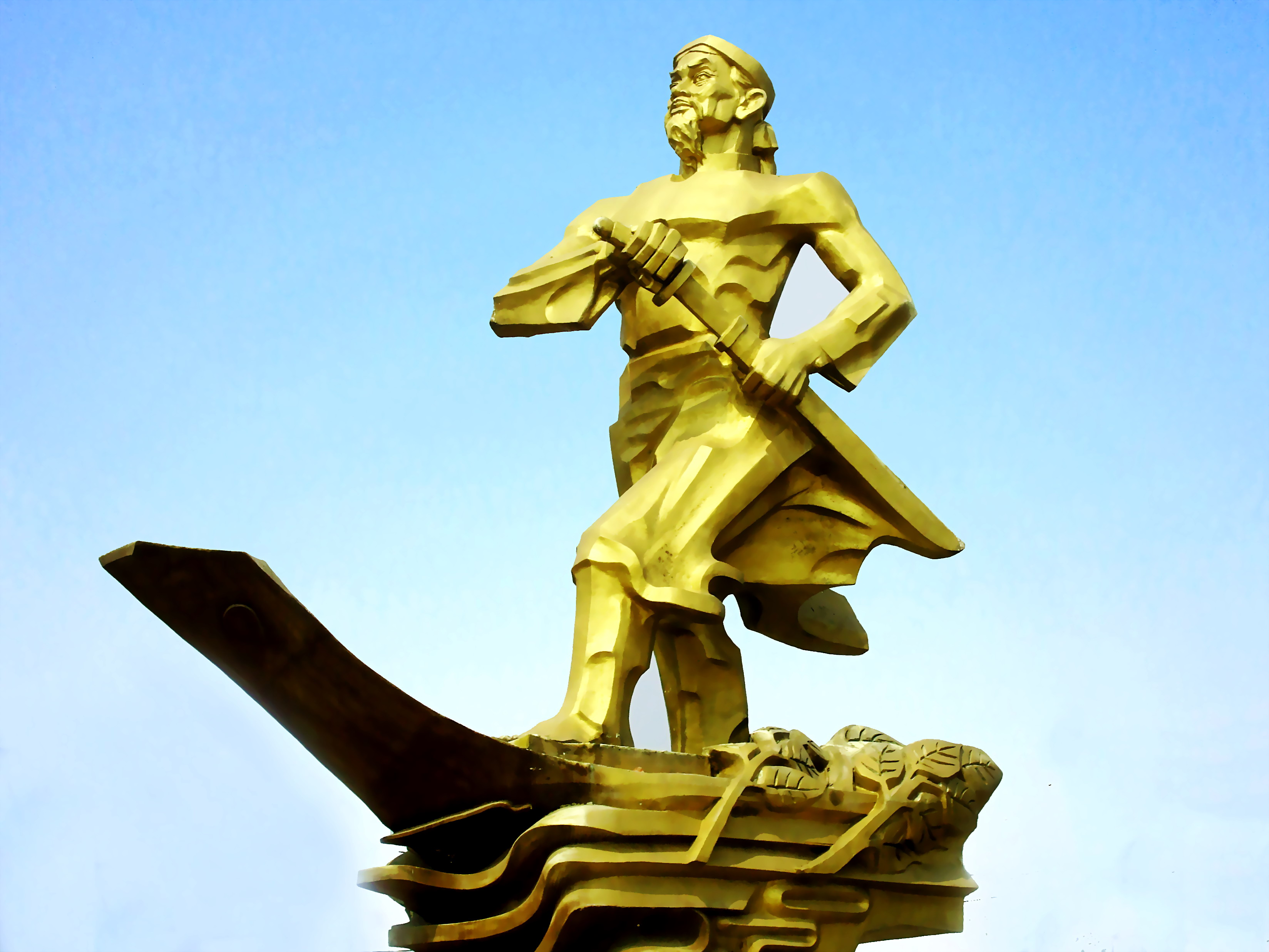 Tượng đài Trần Văn Thành (thủ lĩnh cuộc kháng Pháp tại Bảy Thưa 1867 - 1873) tại thị trấn Châu Phú, huyện Châu Phú, An Giang, Việt Nam.